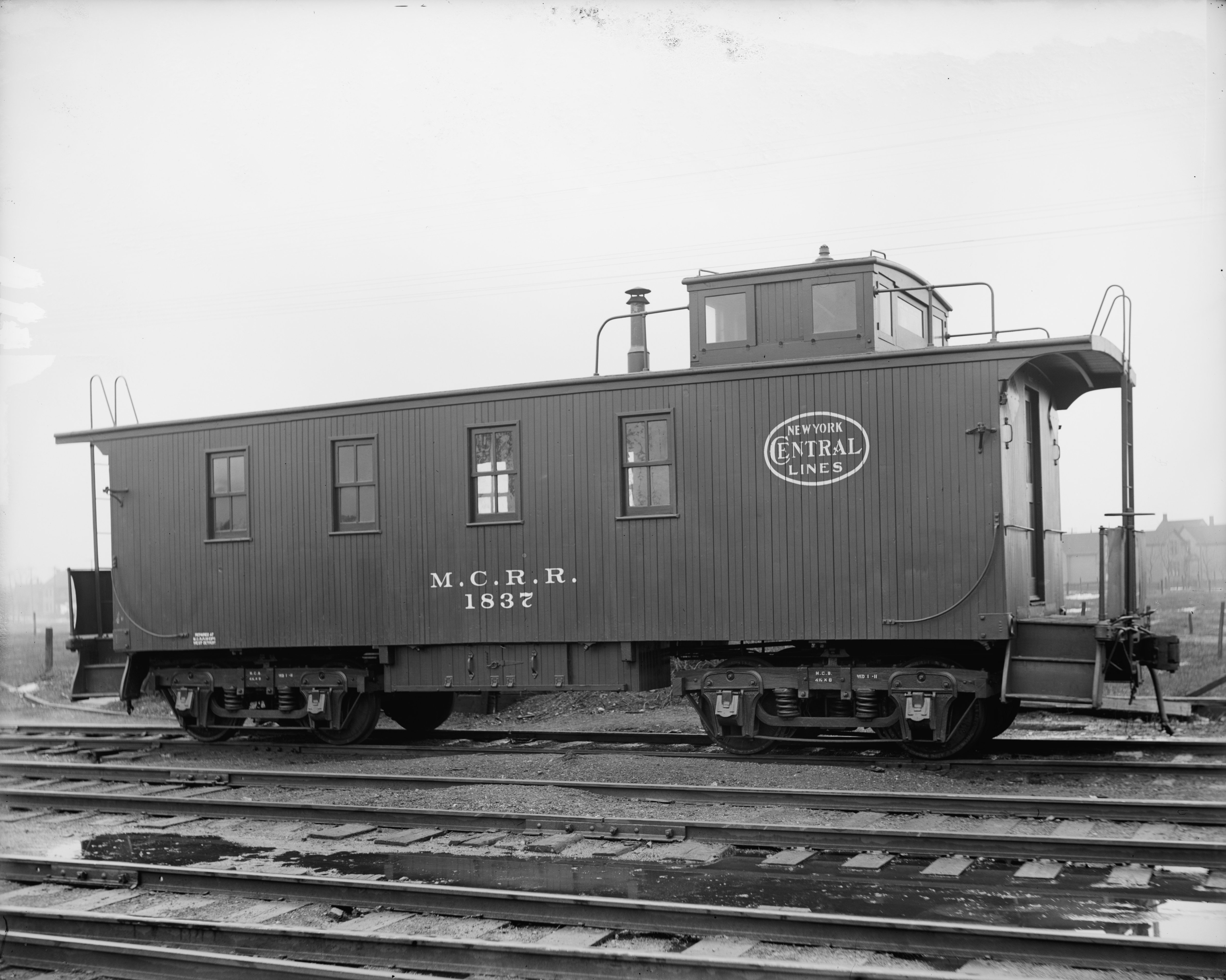 Michigan Central Railroad caboose